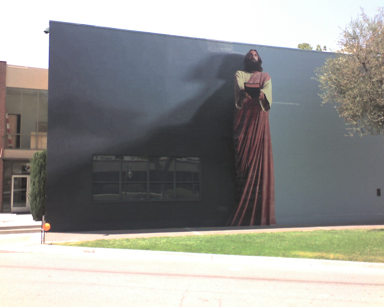 Jesus wall, Biola University